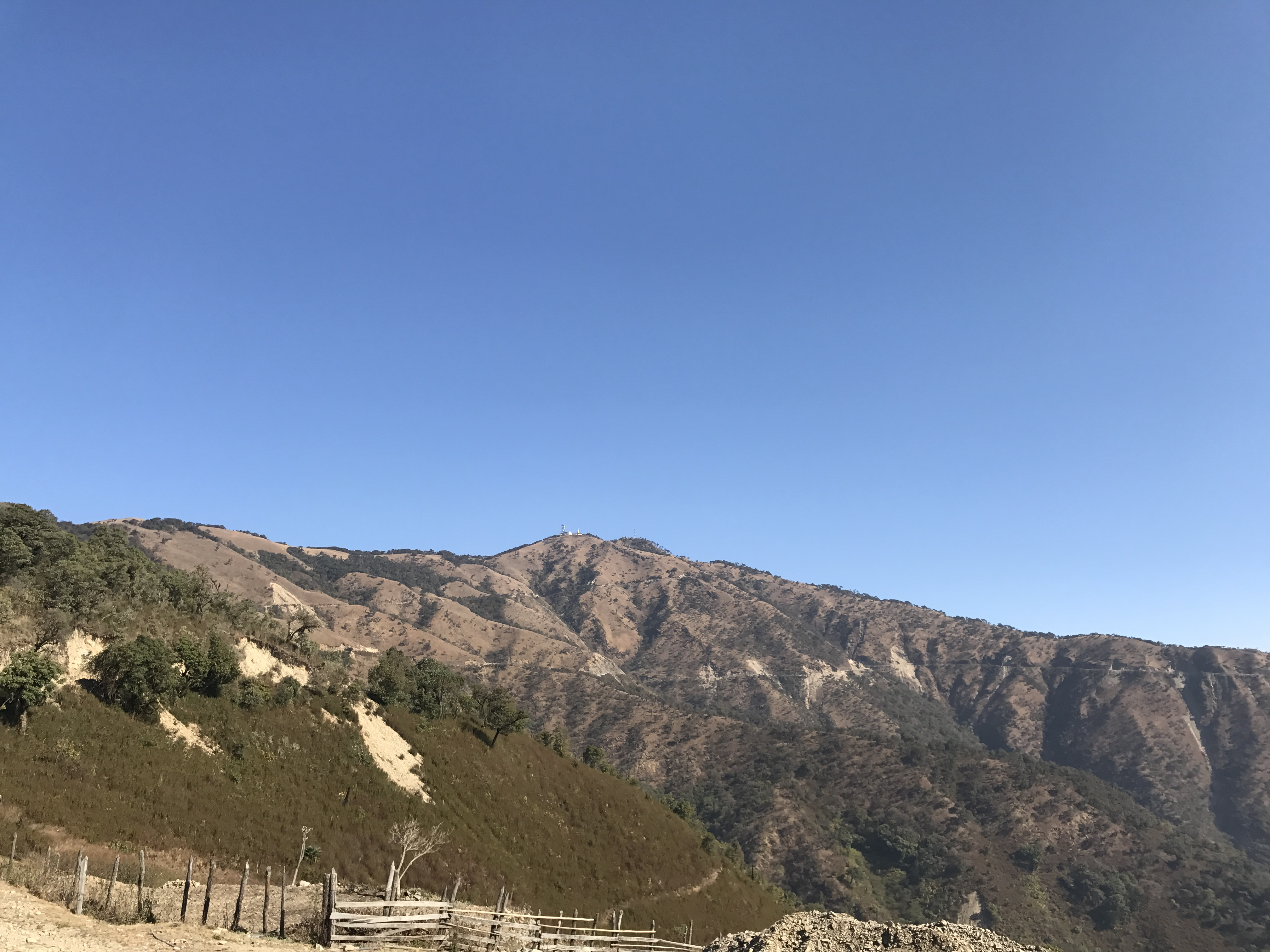 Kennedy Peak seen from Kalay-Tedim road. Standing 2703 m above sea-level.